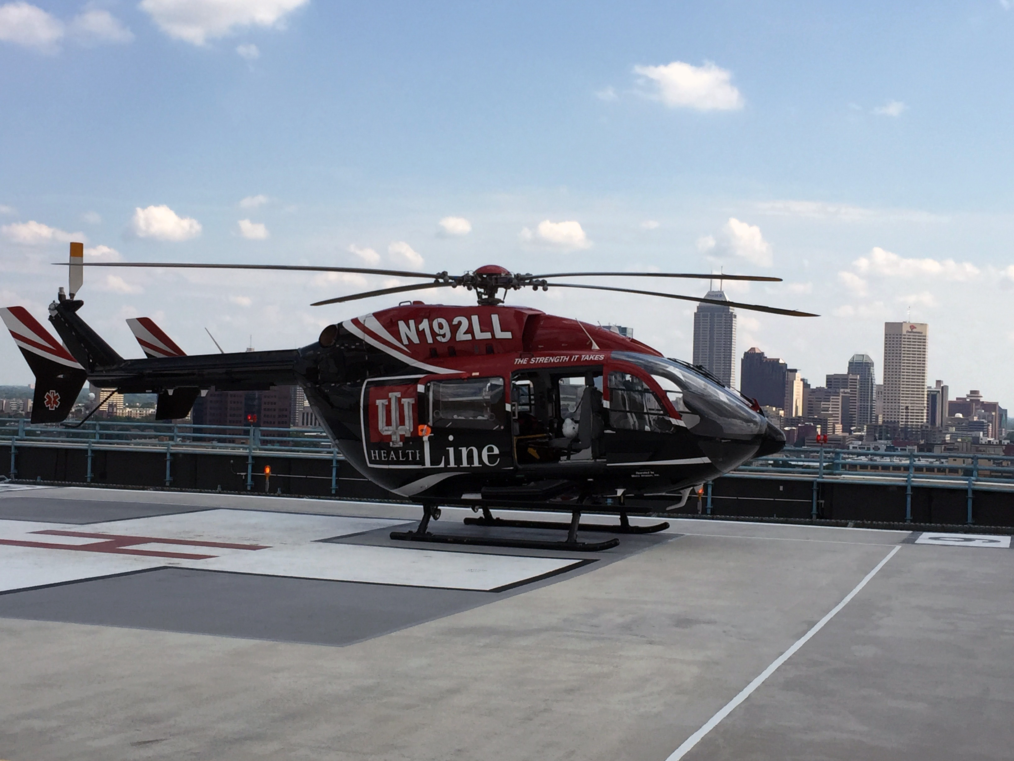 LifeLine N192LL sitting on Methodist pad, overlooking Indianapolis